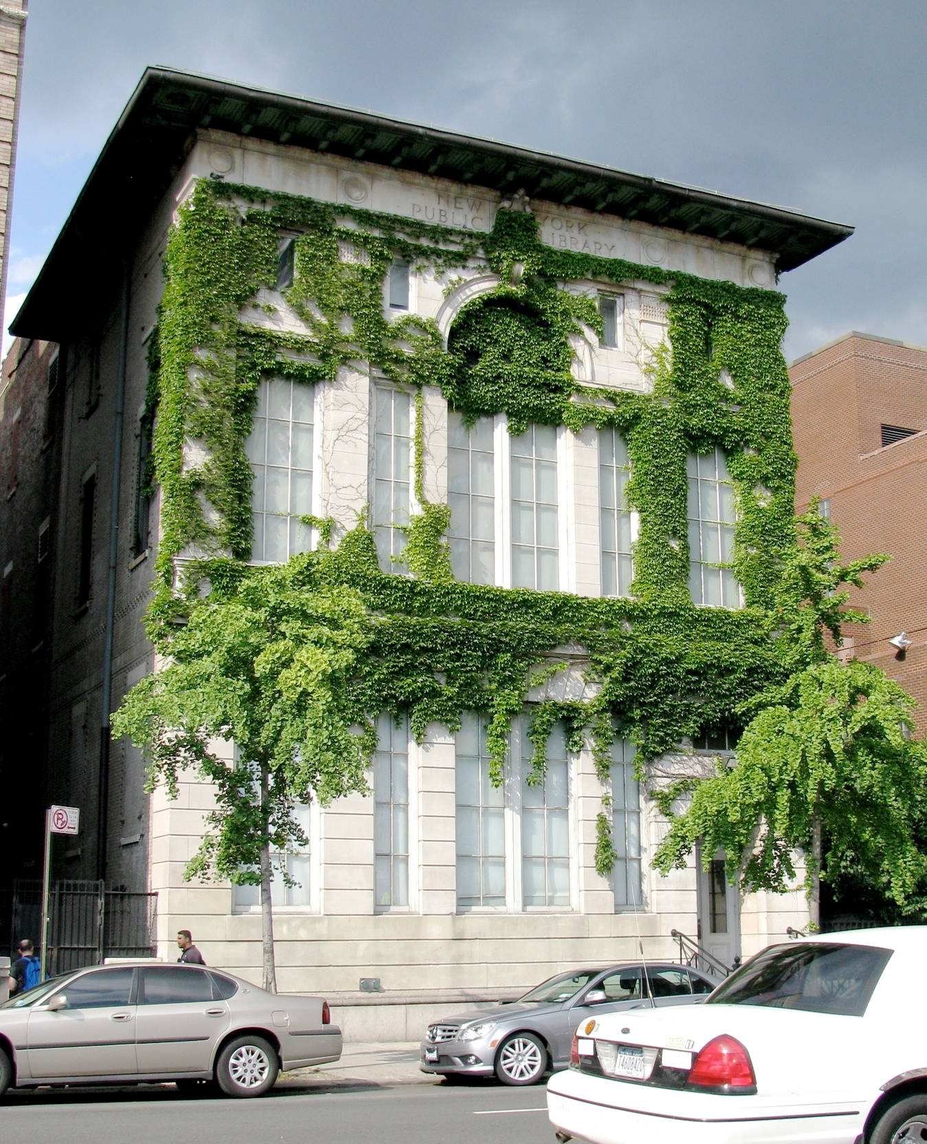 The former 135th Street Branch of the New York Public Library, funded by Andrew Carnegie.